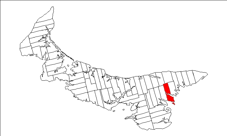 Public domain map of Prince Edward Island created by User:Plasma east with data courtesy of Geogratis, modified to show townships. Released under GFDL (self).